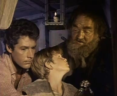 L. to R. : Kerwin Mathews, Roger Mobley & Barry Kelley in Jack the Giant Killer (1962) - trailer (cropped screenshot)